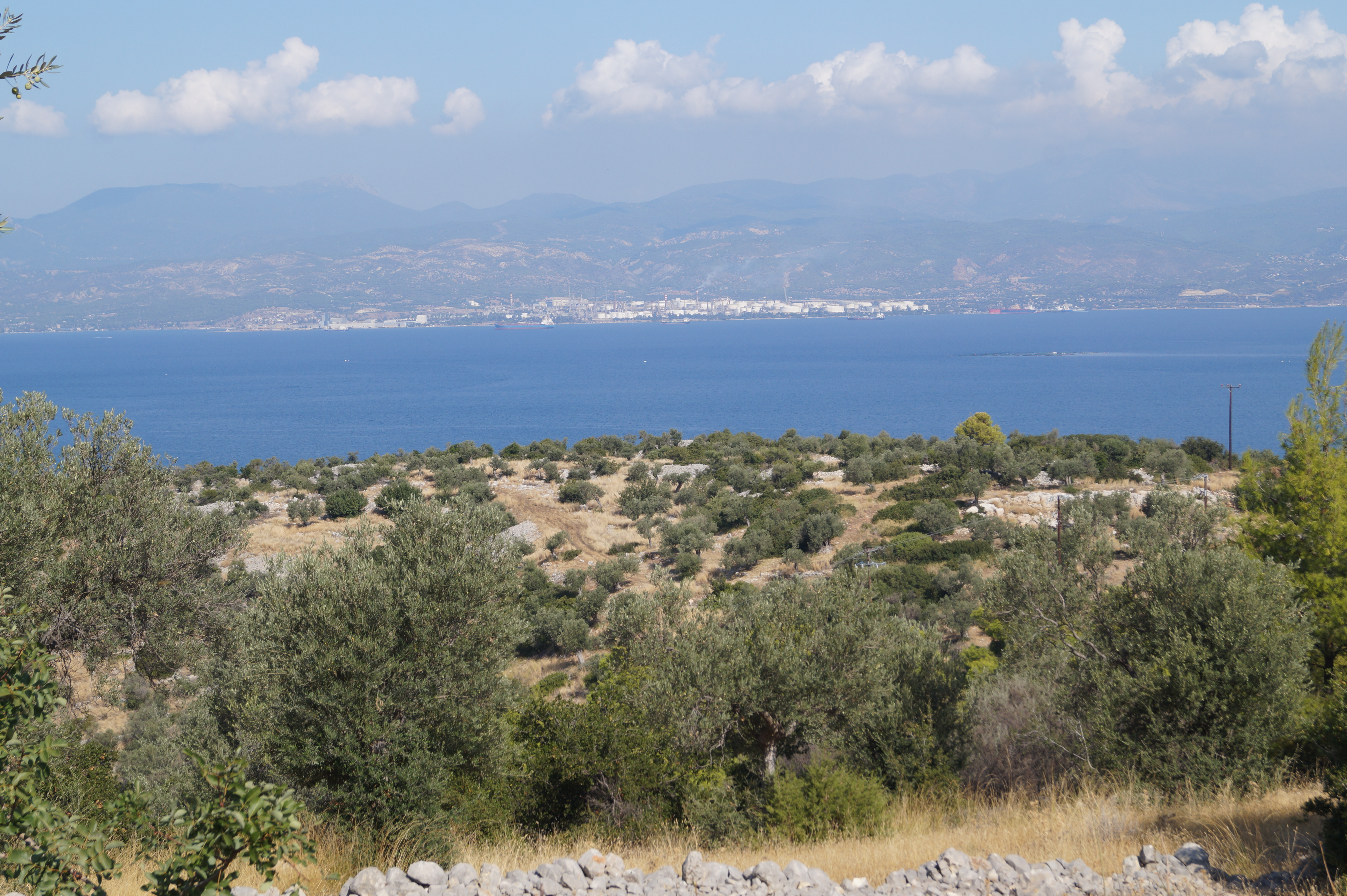 Vagia, Korinthia, Greece: View from south on the archaeological site of Vagia.